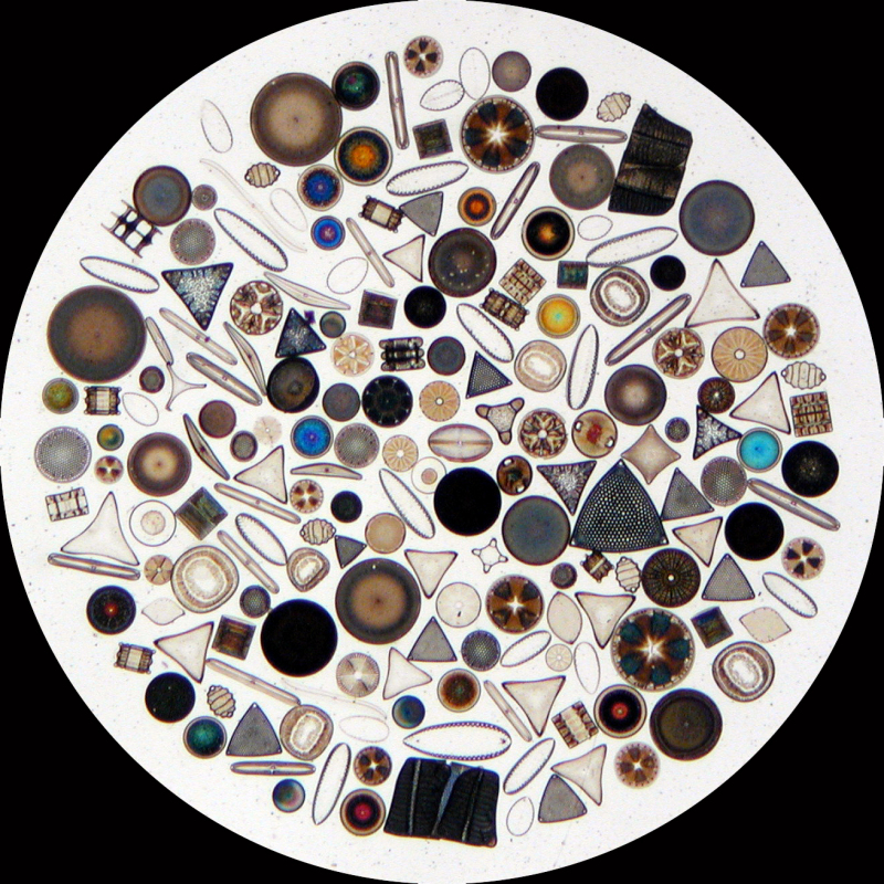 Circle of diatoms on a slide